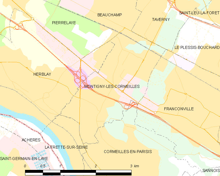 Map of French municipality Montigny-lès-Cormeilles